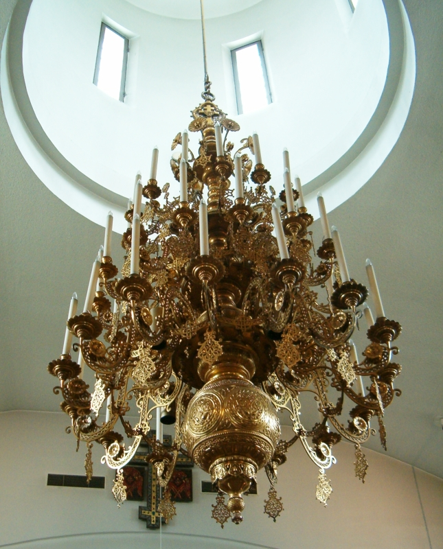 The chandelier of the Main church of the New Valamo orthodox monastery in Heinävesi, Finland weights 800 kilograms and is gold-plated copper.